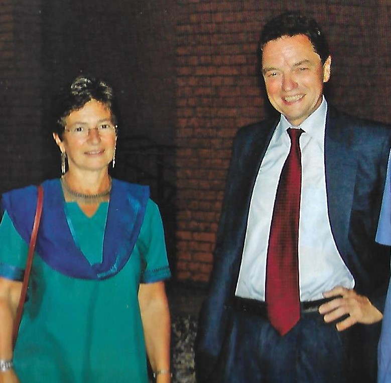 UK's High Commissioner in New Delhi, Sir Michael Arthur, at The Doon School, India. Seen here with his wife Plaxy Gillian Beatrice, dressed in shalwar kameez.